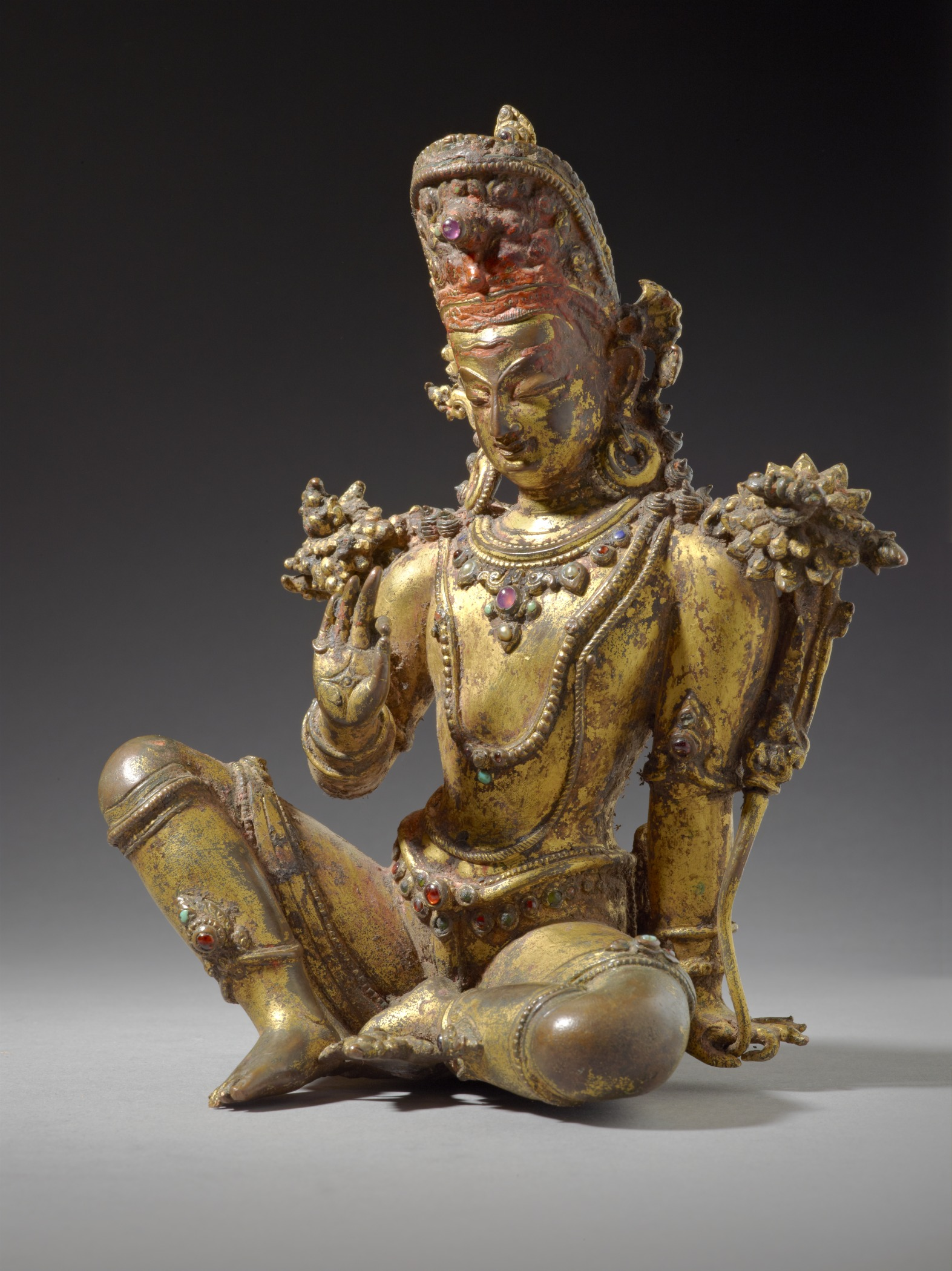 Nepal, 16th century Sculpture Gilt copper, gemstones, and traces of paint From the Nasli and Alice Heeramaneck Collection, Museum Associates Purchase (M.69.13.4) South and Southeast Asian Art